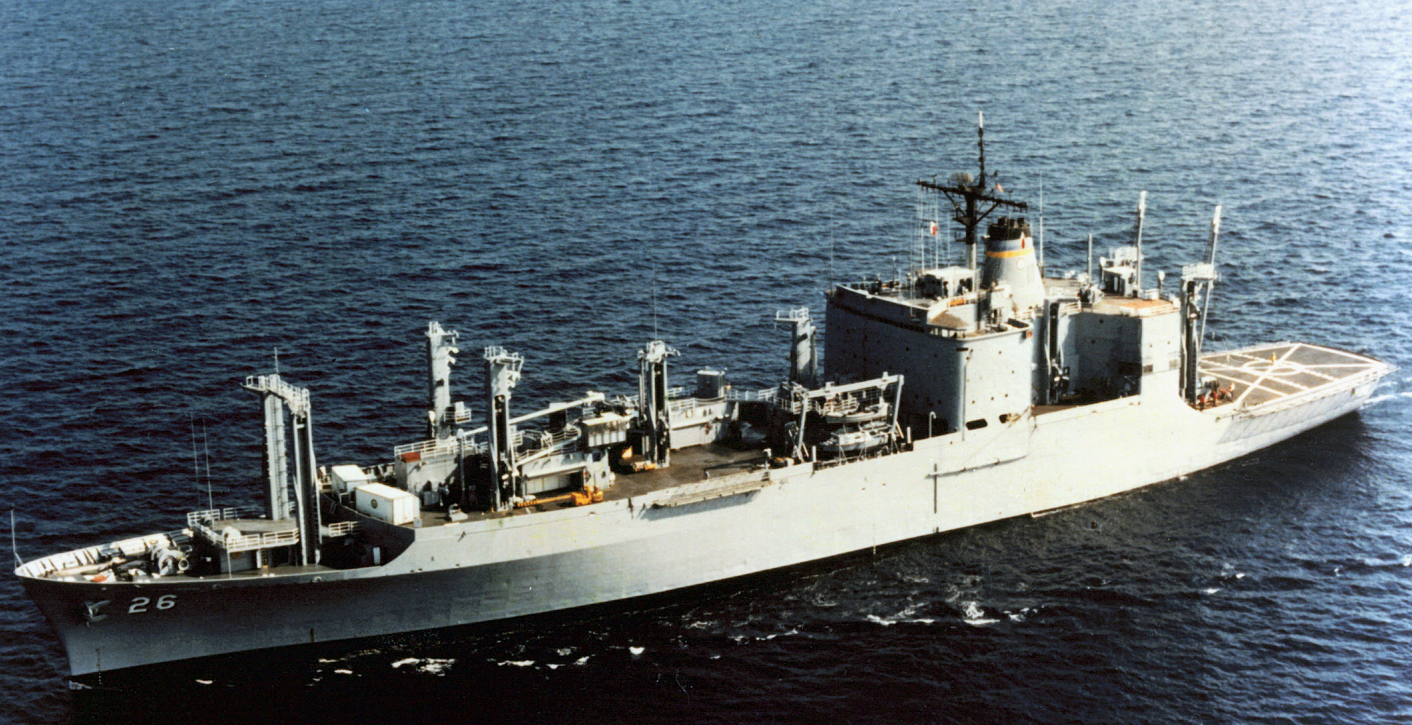 USNS Kilauea (T-AE-26), formerly USS Kilauea (AE-26)